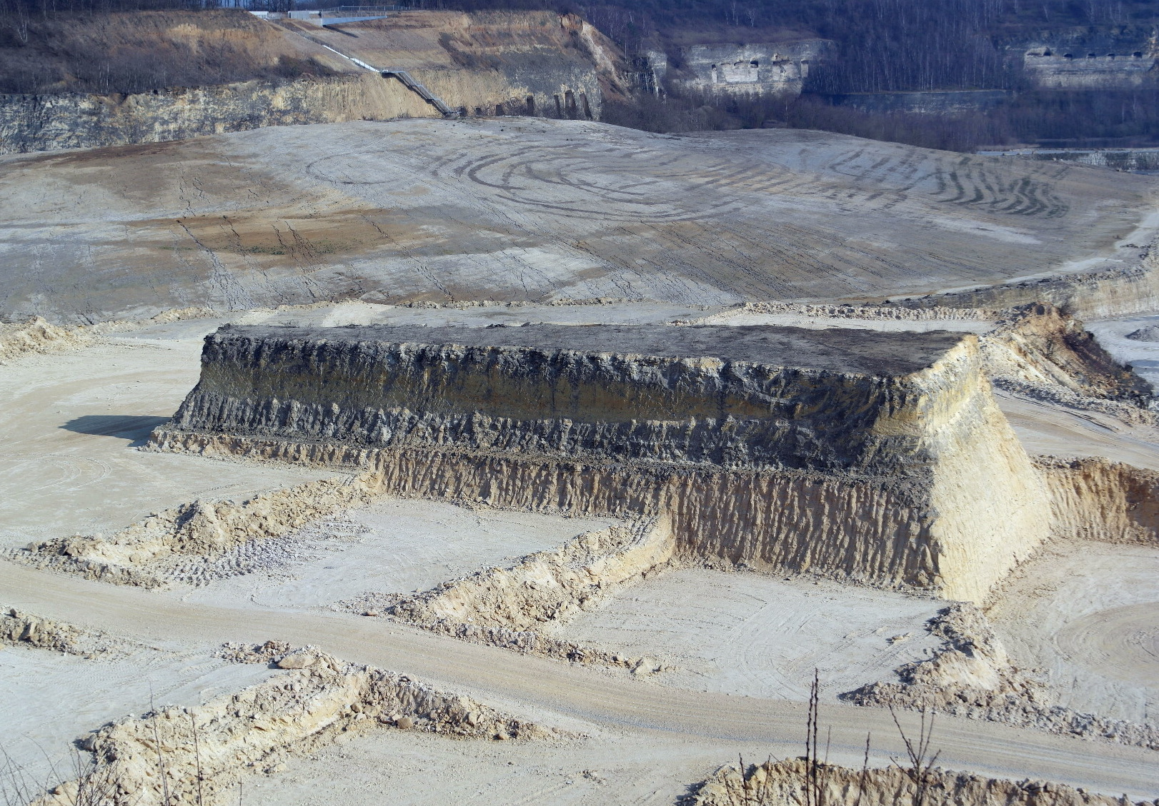 View of the ENCI-groeve, a former limestone quarry, now a nature reserve on Mount St Peter in Maastricht, the Netherlands. In the background the new viewing platform and stairs into the quarry.